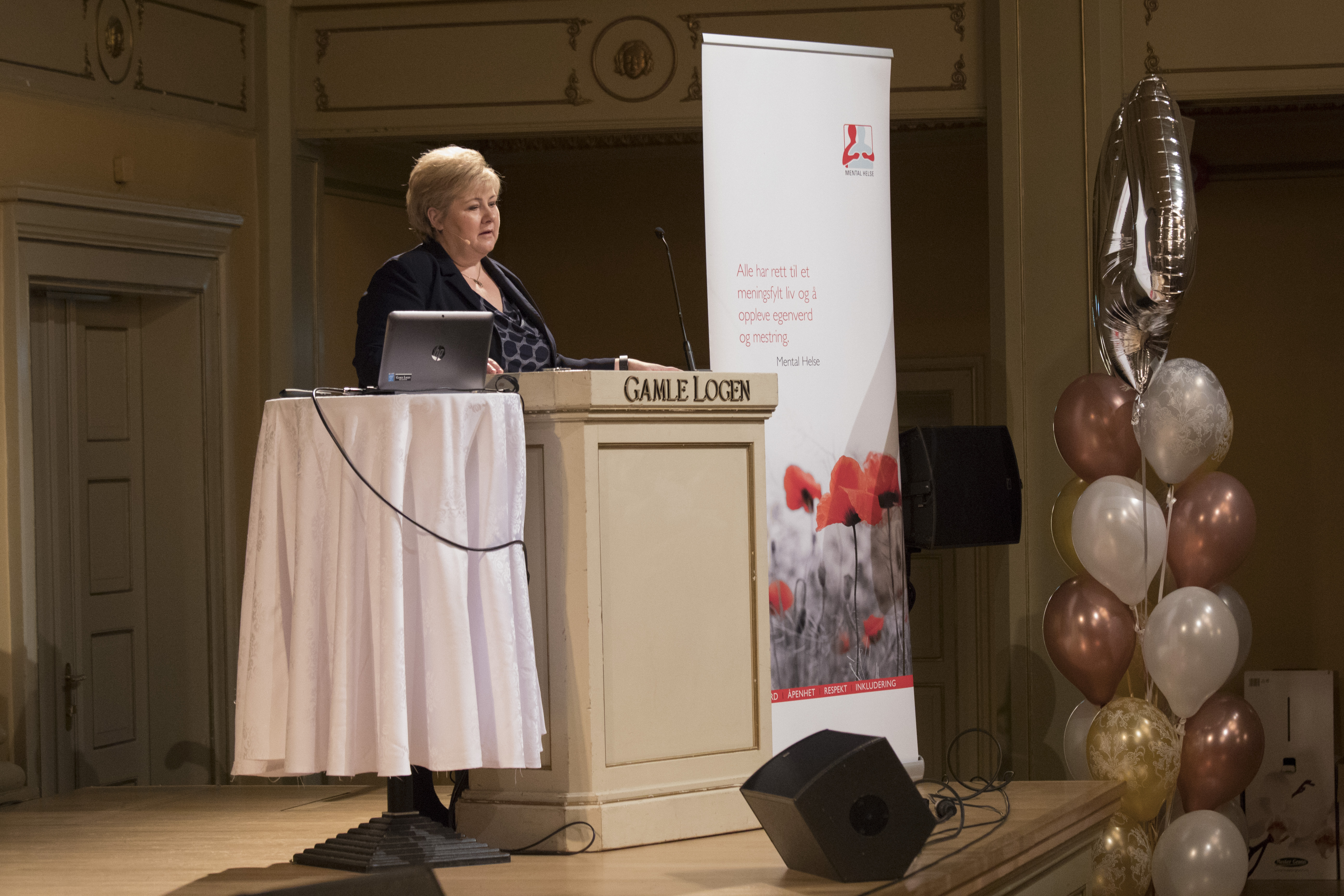 Norwegian prime minister Erna Solberg holding the opening speech for Mental Health Norway's 40-year anniversary conference.